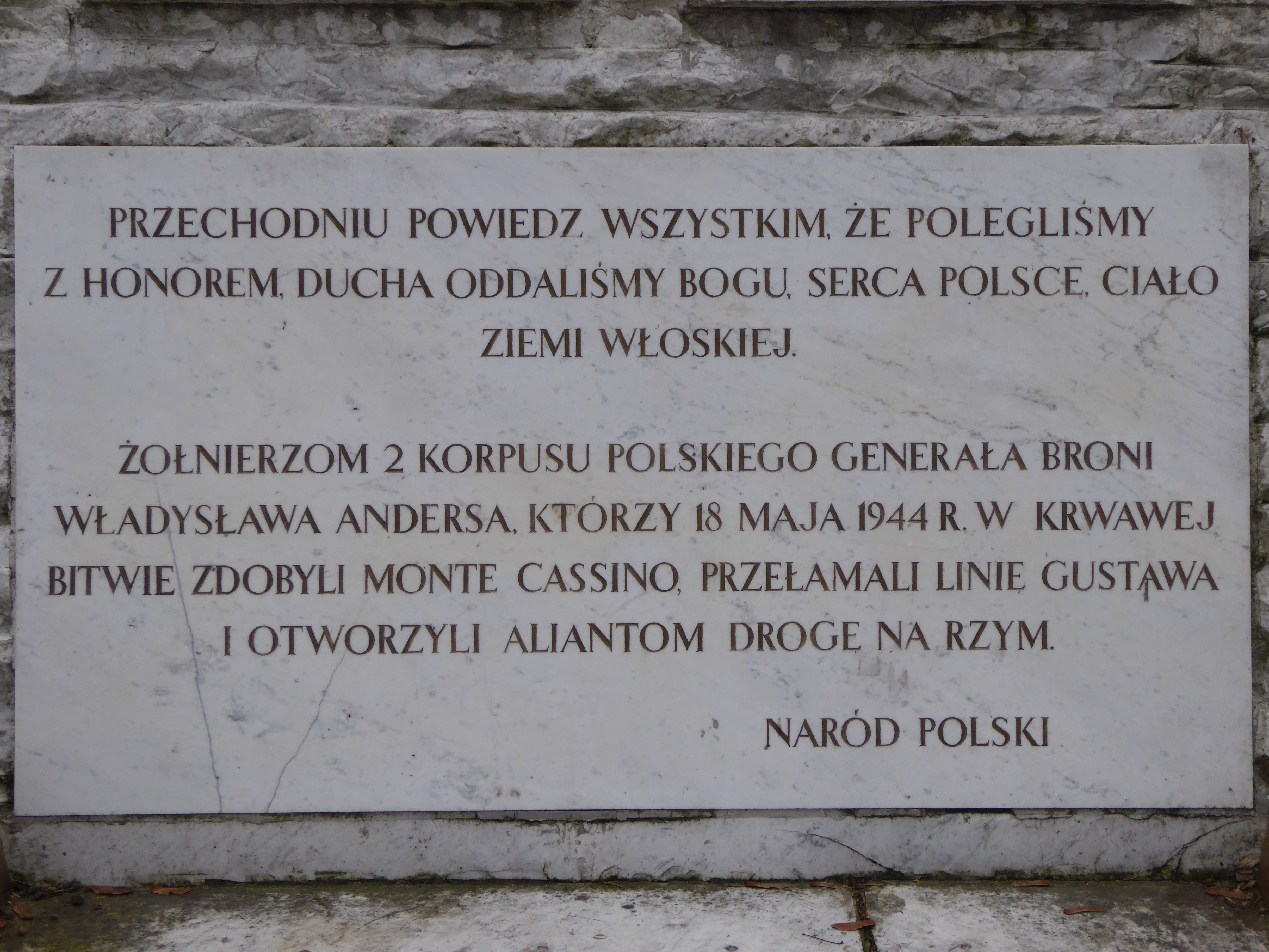 Monument to the Battle of Monte Cassino in Warsaw (Pomnik Bitwy o Monte Cassino w Warszawie)